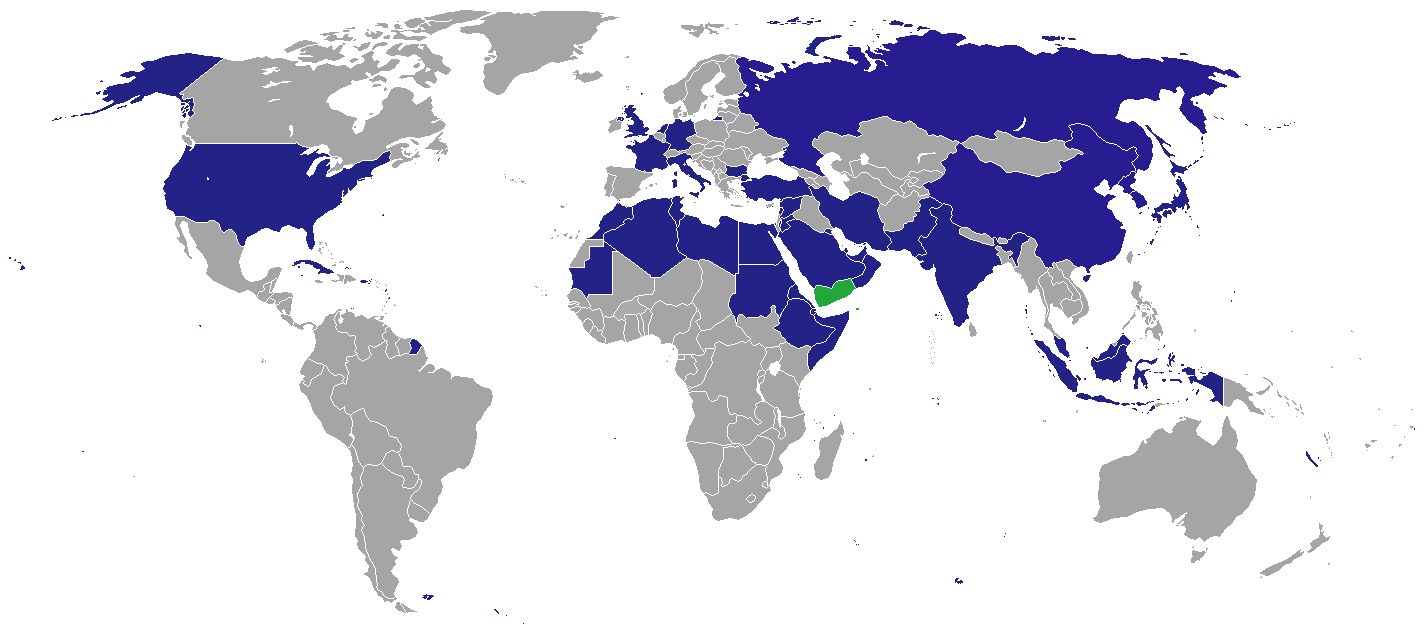 Map of diplomatic missions in Yemen